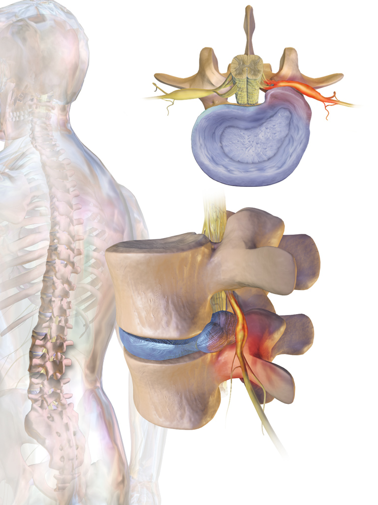 An illustration depicting radiculopathy.